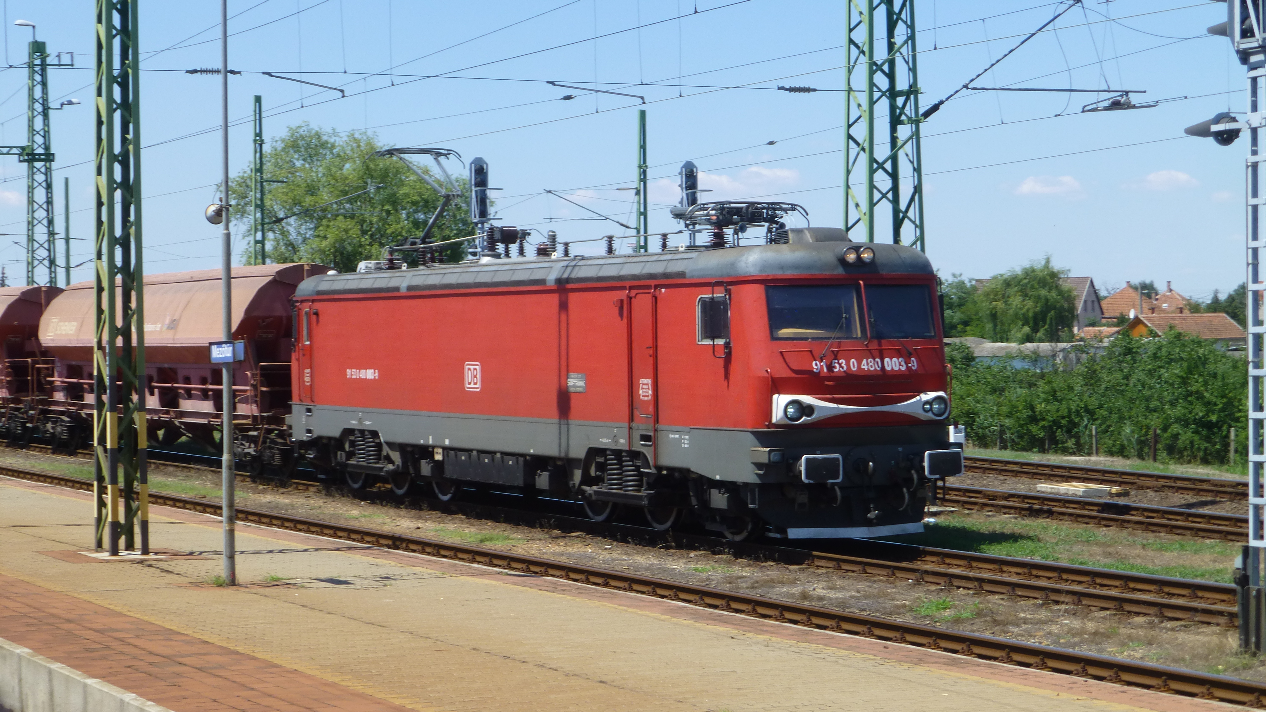 Transmontana Locomotive in Mezőtúr, owned by the DB Schenker Rail Romania.